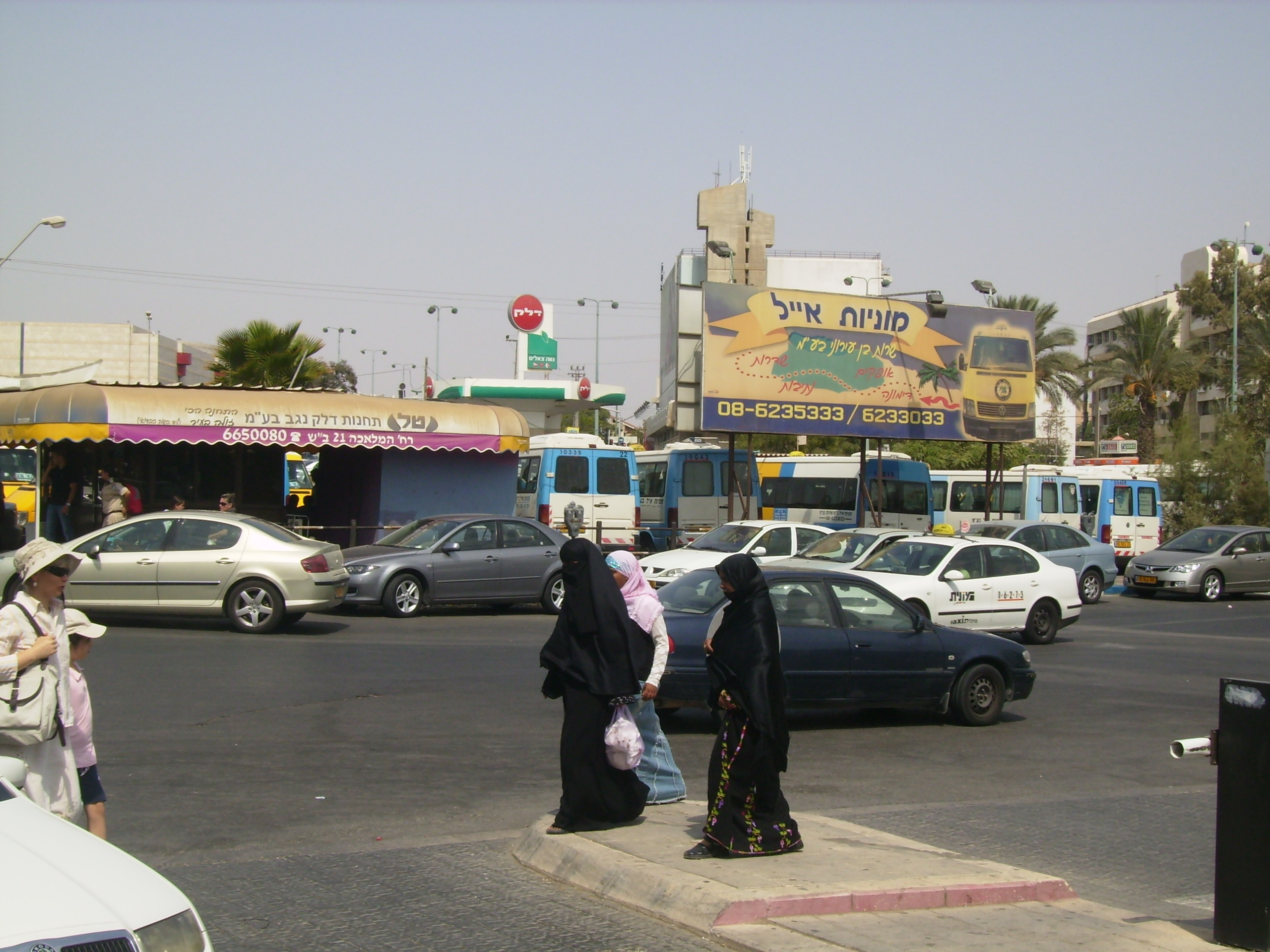 Muslim women wearing veils and traditional outfit walking near the central bus station of Beersheba.